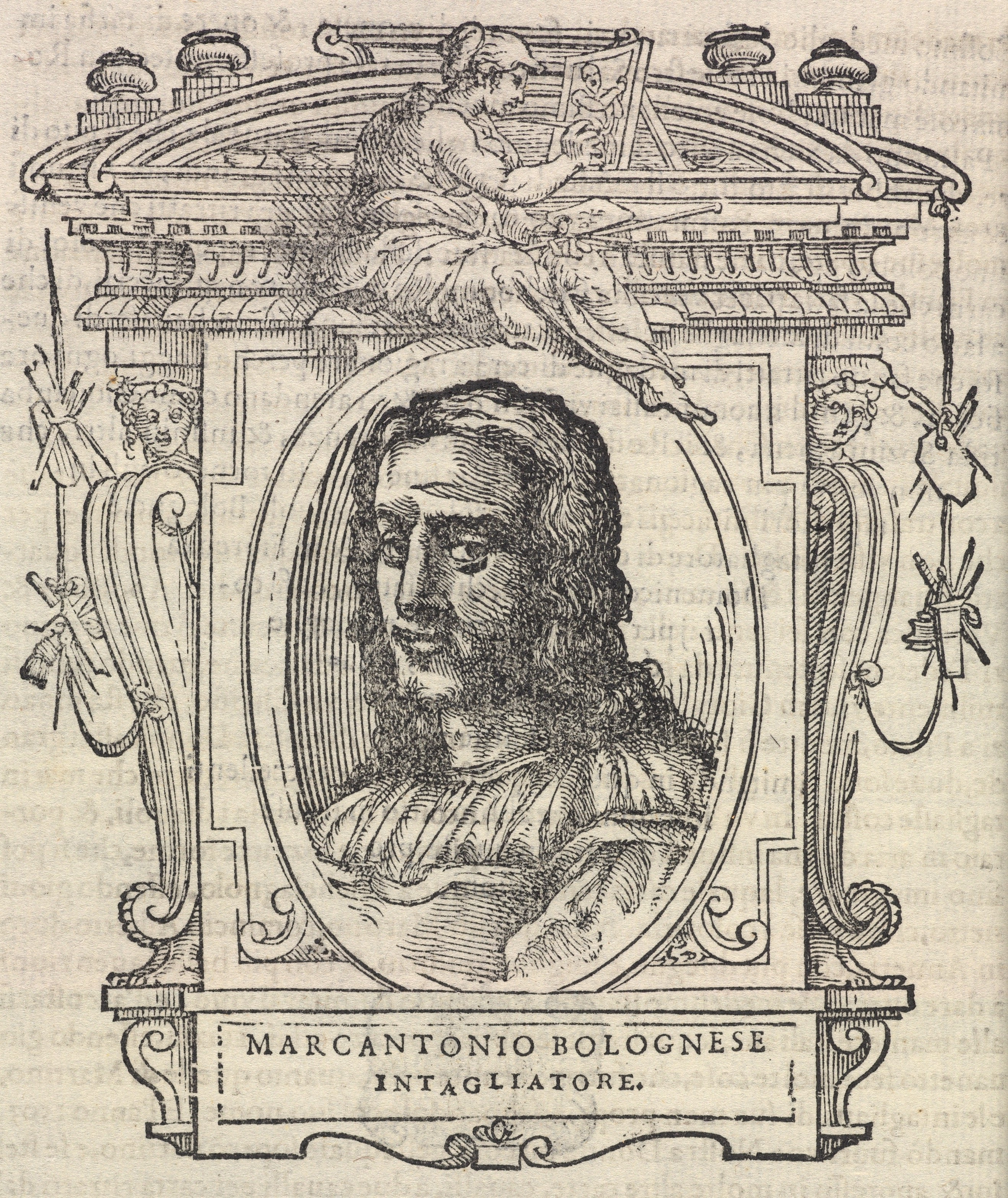 Plate of Marcantonio, from Le vite de’ piv eccellenti pittori, scvltori, e architettori (Fiorenza: Appresso i Giunti, 1568), by Giorgio Vasari (1511-1574). Typ 525 68.864, Houghton Library, Harvard University